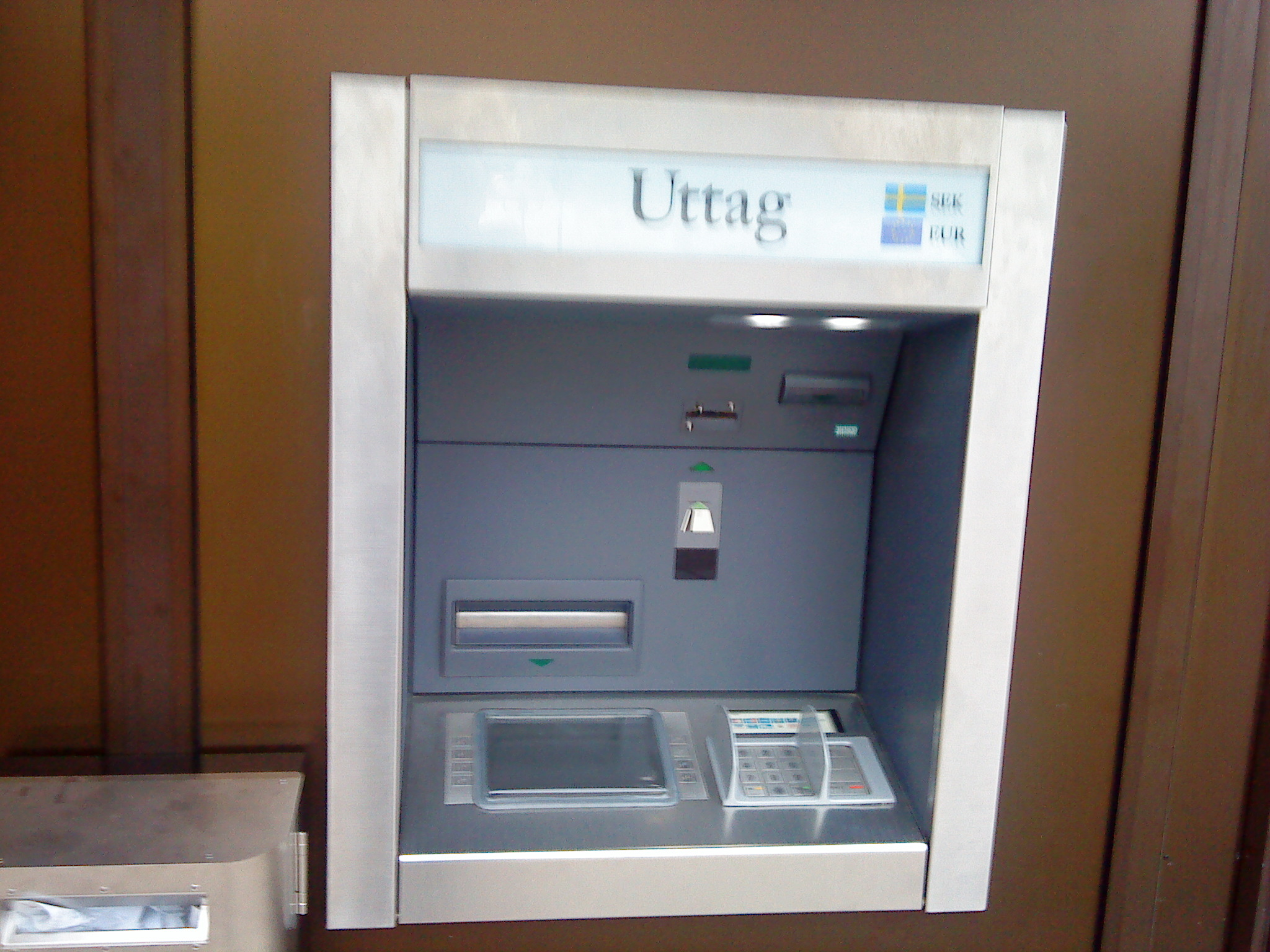 Automat giving both kronor and euro